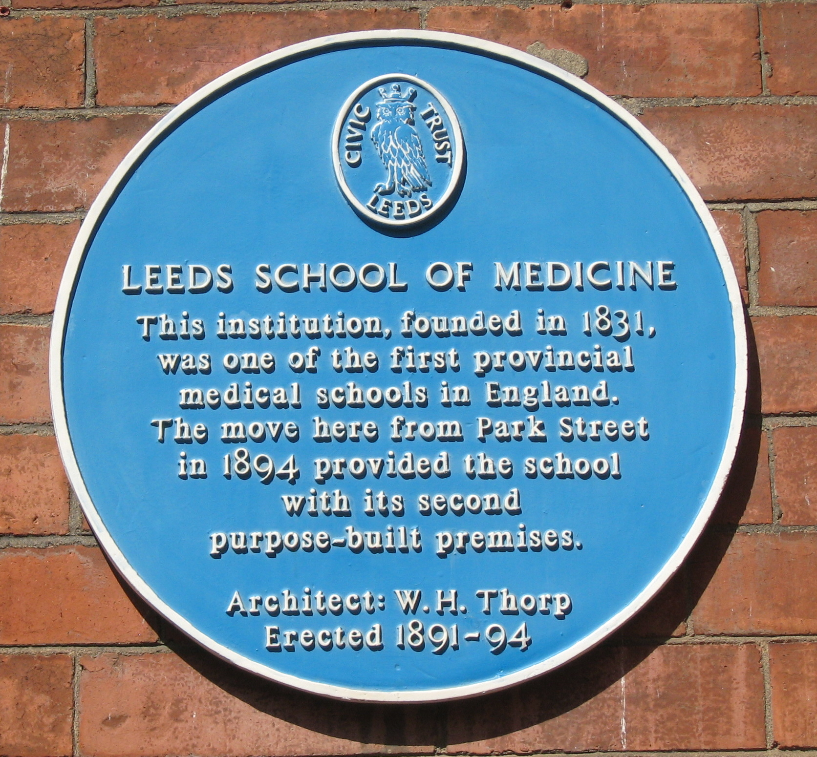 Leeds School of Medicine, Thoresby Place, Leeds.